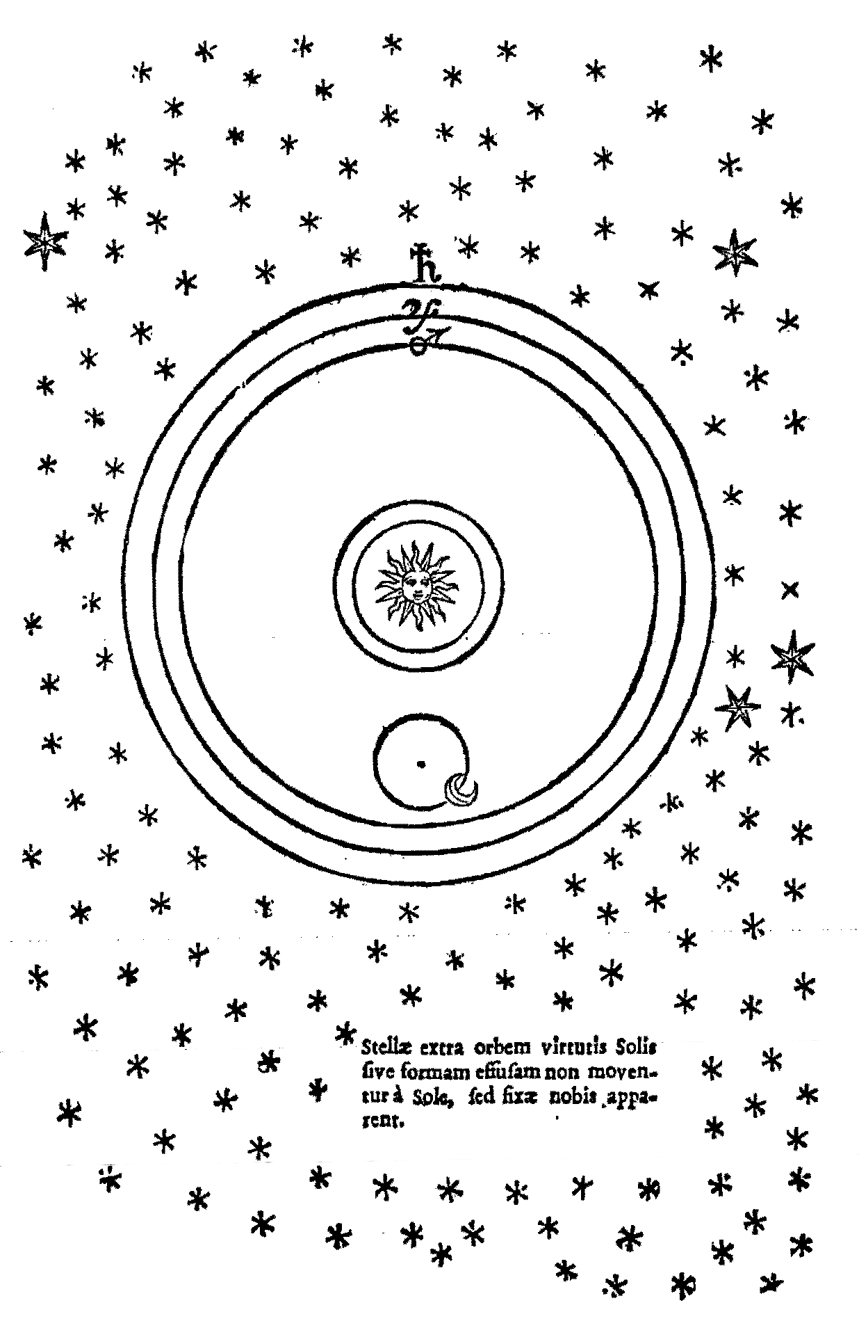 Diagram appearing on p202 of De Mundo, showing Gilbert's conception of the solar system. He rejected the idea of the "sphere of the stars" as shown clearly in De Magneto, published in 1600. However he didn't publish this manuscript before his death in 1603, nor did make any clear statement that he believed the earth moved around the sun, although he asserted that the earth revolved daily on its axis. The book was prepared for publication by his brother and didn't take place till 1651